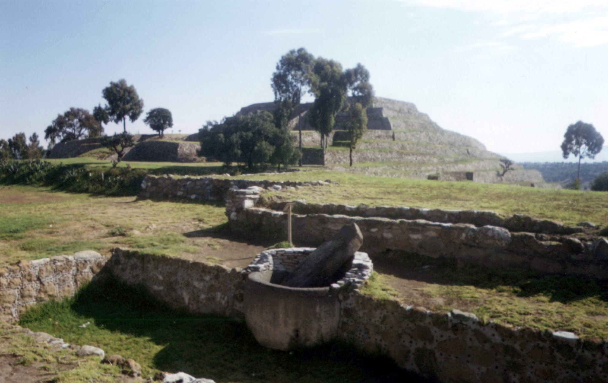 Precolumbian ruins of Xochitecatl, Tlaxcala, Mexico.